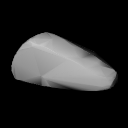 3D convex shape model of 2490 Bussolini, computed using light curve inversion techniques. J. Hanuš, J. Ďurech, M. Brož, B. D. Warner (June 2011). "A study of asteroid pole-latitude distribution based on an extended set of shape models derived by the lightcurve inversion method". Astronomy and Astrophysics 530: A134. ISSN 0004-6361. arXiv